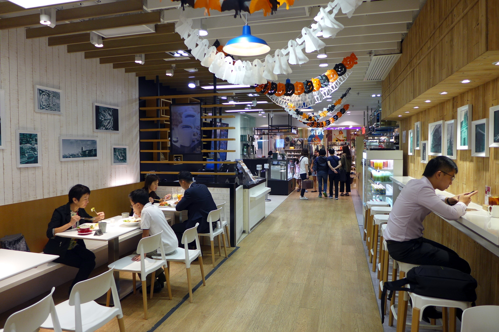 Log-on Cafe in Cityplaza